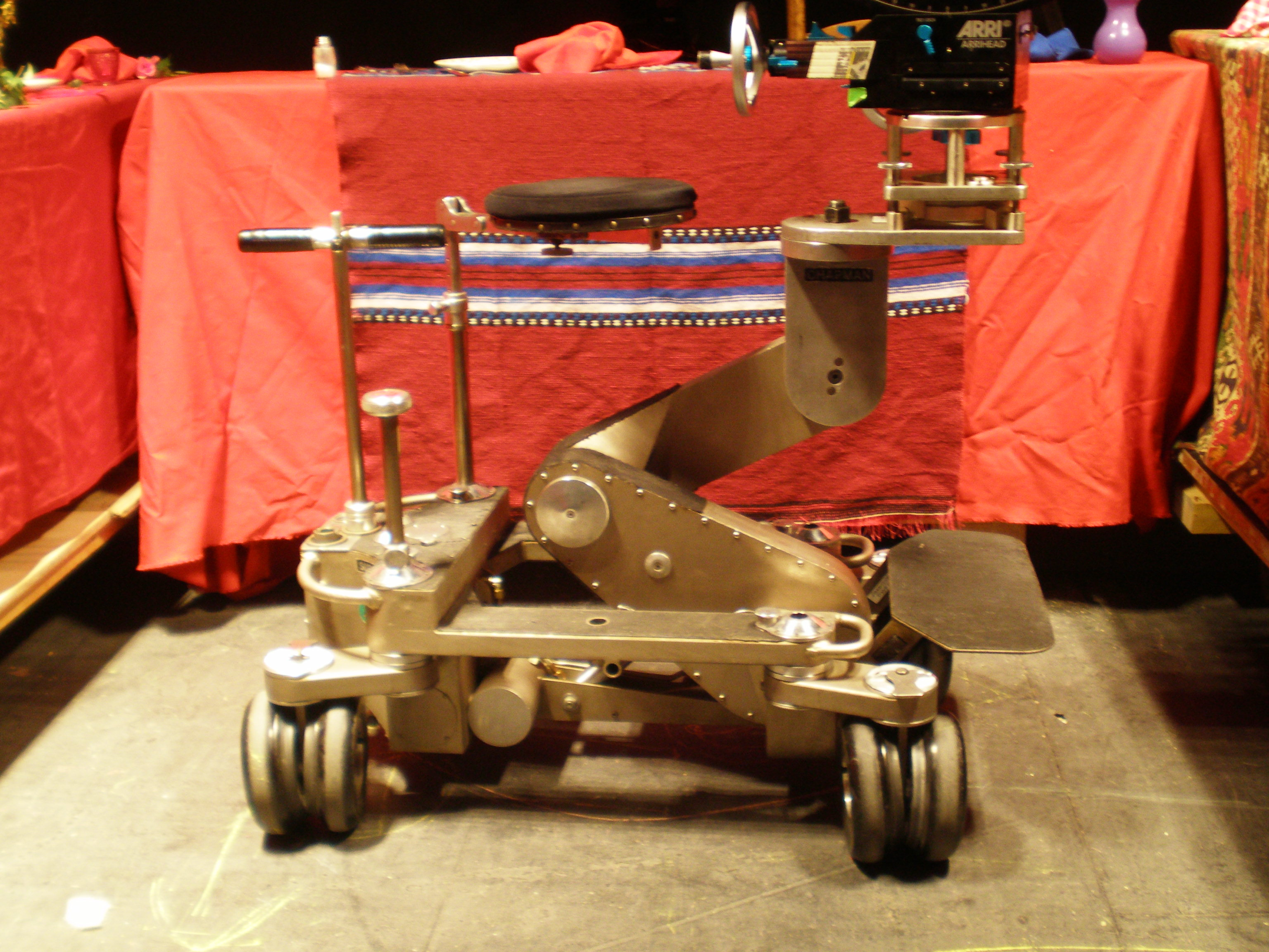 "Pee Wee II" camera dolly on movie set.